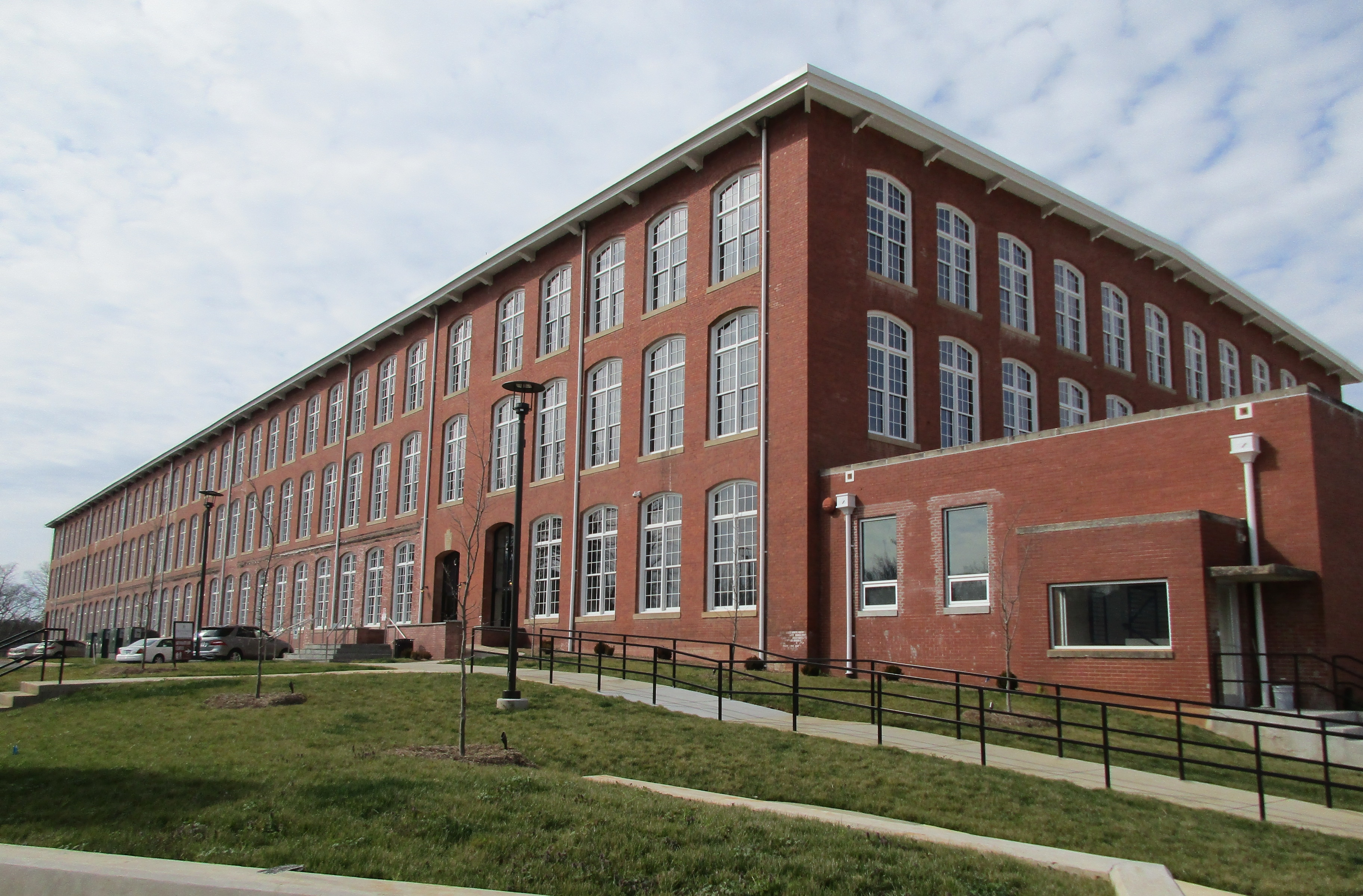 The newly renovated (as of March 2016) Drayton Mill spinning building, which now houses loft apartments.